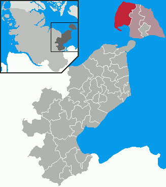 This map shows the area of the former Gemeinde (municipality) Westfehmarn in the Kreis (district) Ostholstein, Schleswig-Holstein, Germany.